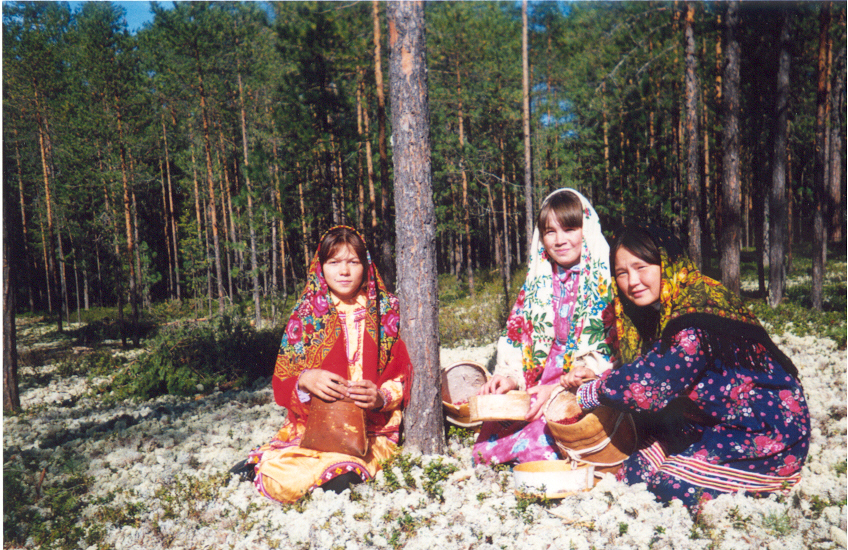 Gathering berries, Khanty people of Russia